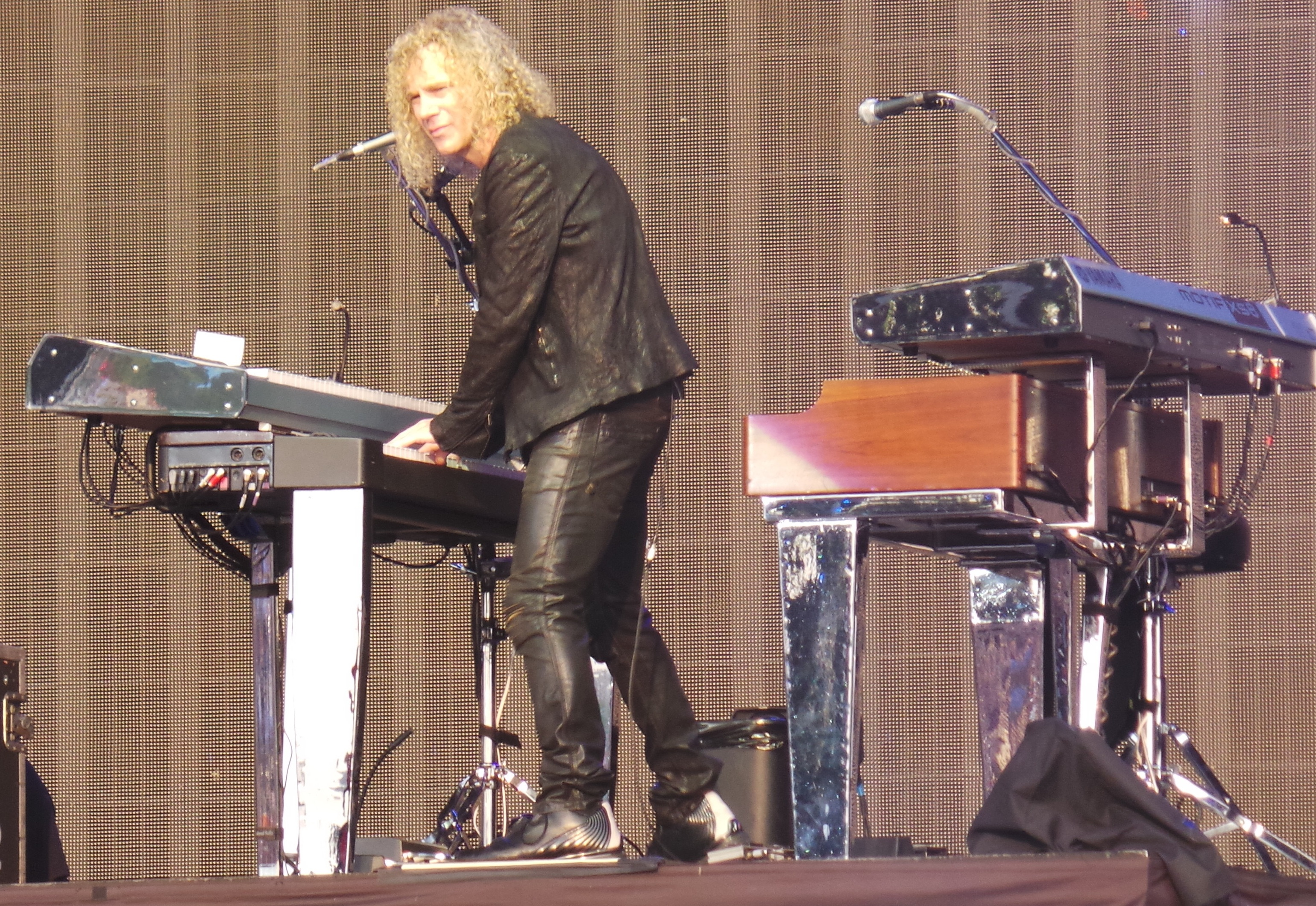 David Bryan in Hyde Park, London.